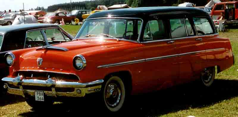 1953 Mercury Monterey 8-Passenger Station Wagon